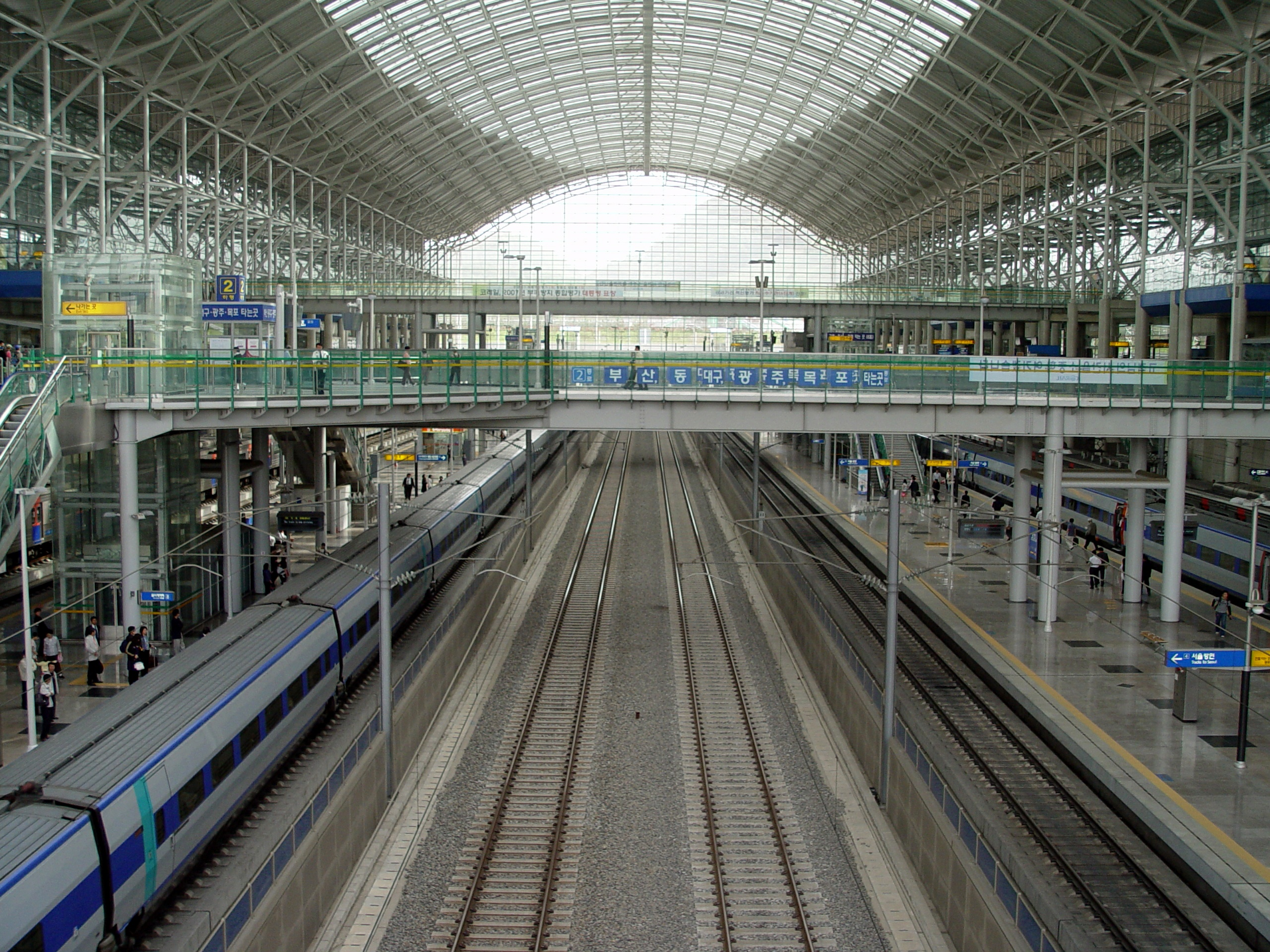 Two KTX trains and two subway trains in Gwangmyeong Station, South Korea. From left to right: Subway train; Busan-bound KTX; Seoul-bound KTX; subway train. The photo is taken from the northern end of the station, looking south.